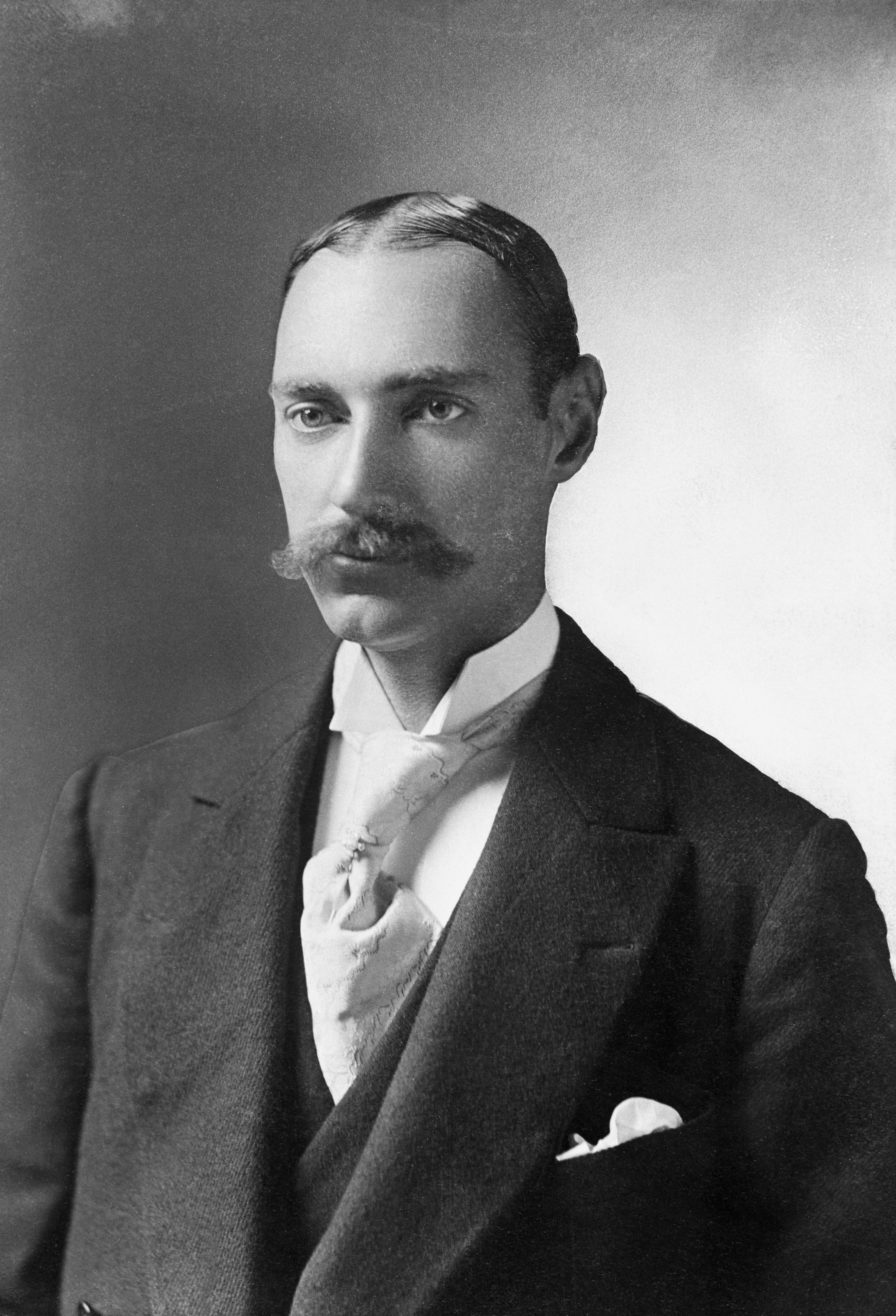 John Jacob Astor IV (July 13, 1864 – April 15, 1912)